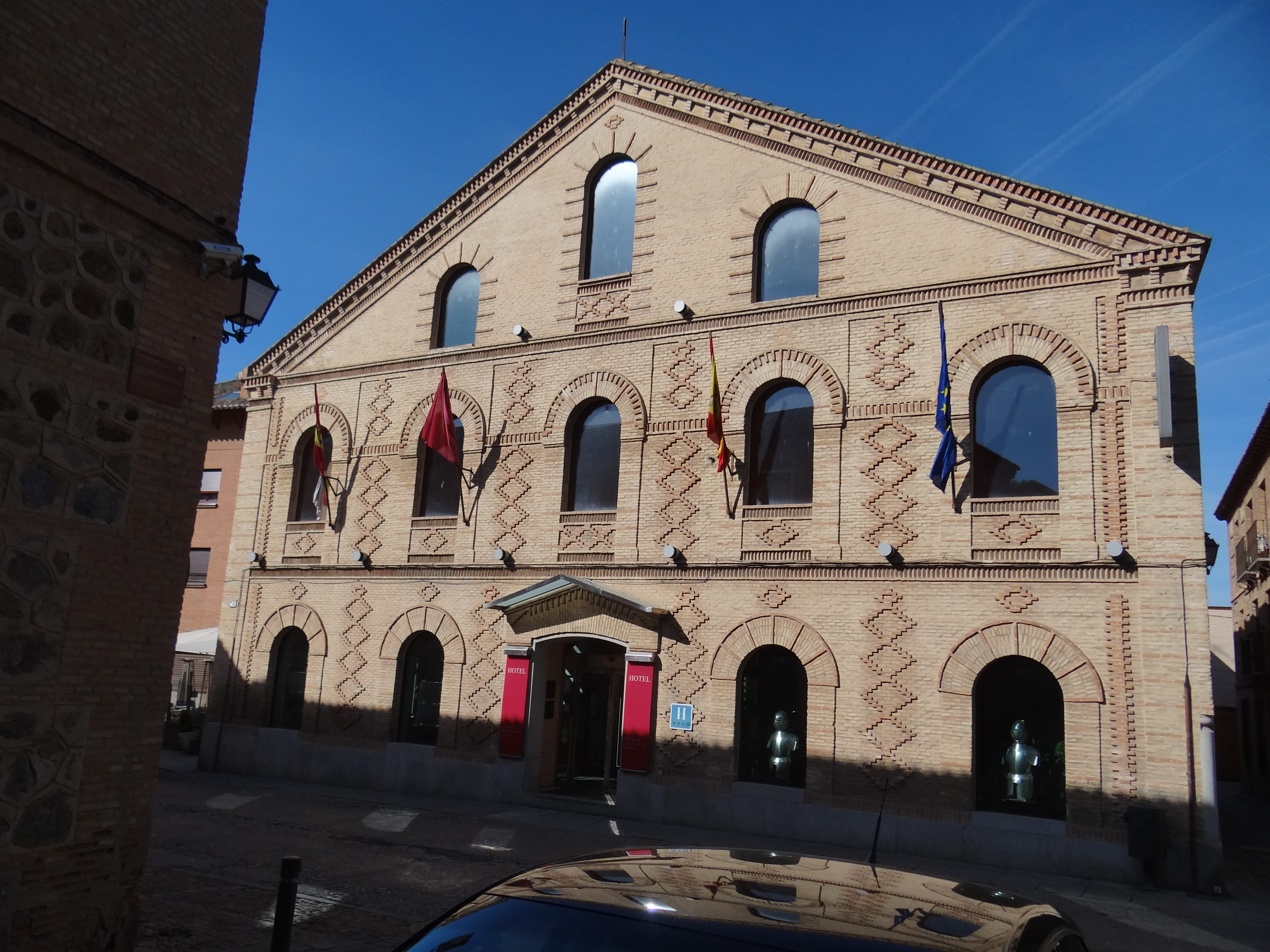 Hotel San Juan de los Reyes - Toledo